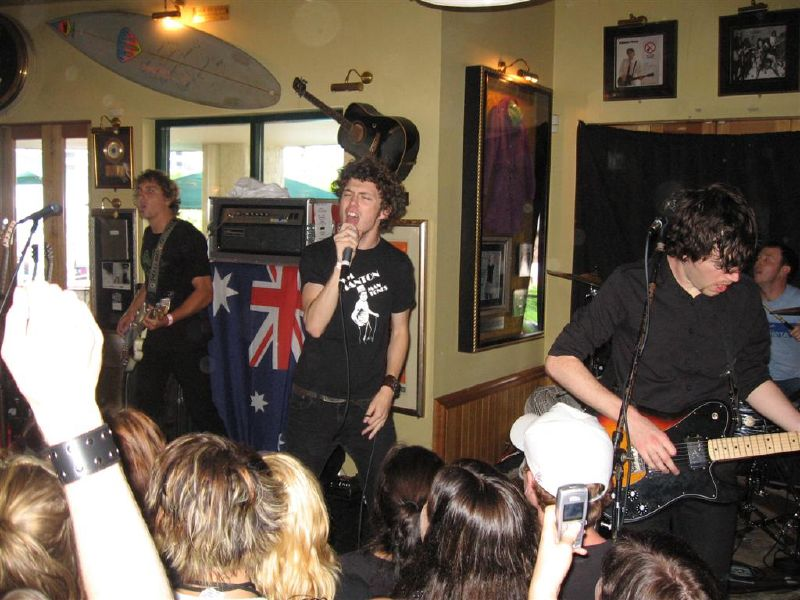 Australian rock band After the Fall playing at Schoolies 2005 in Surfers Paradise, Queensland.